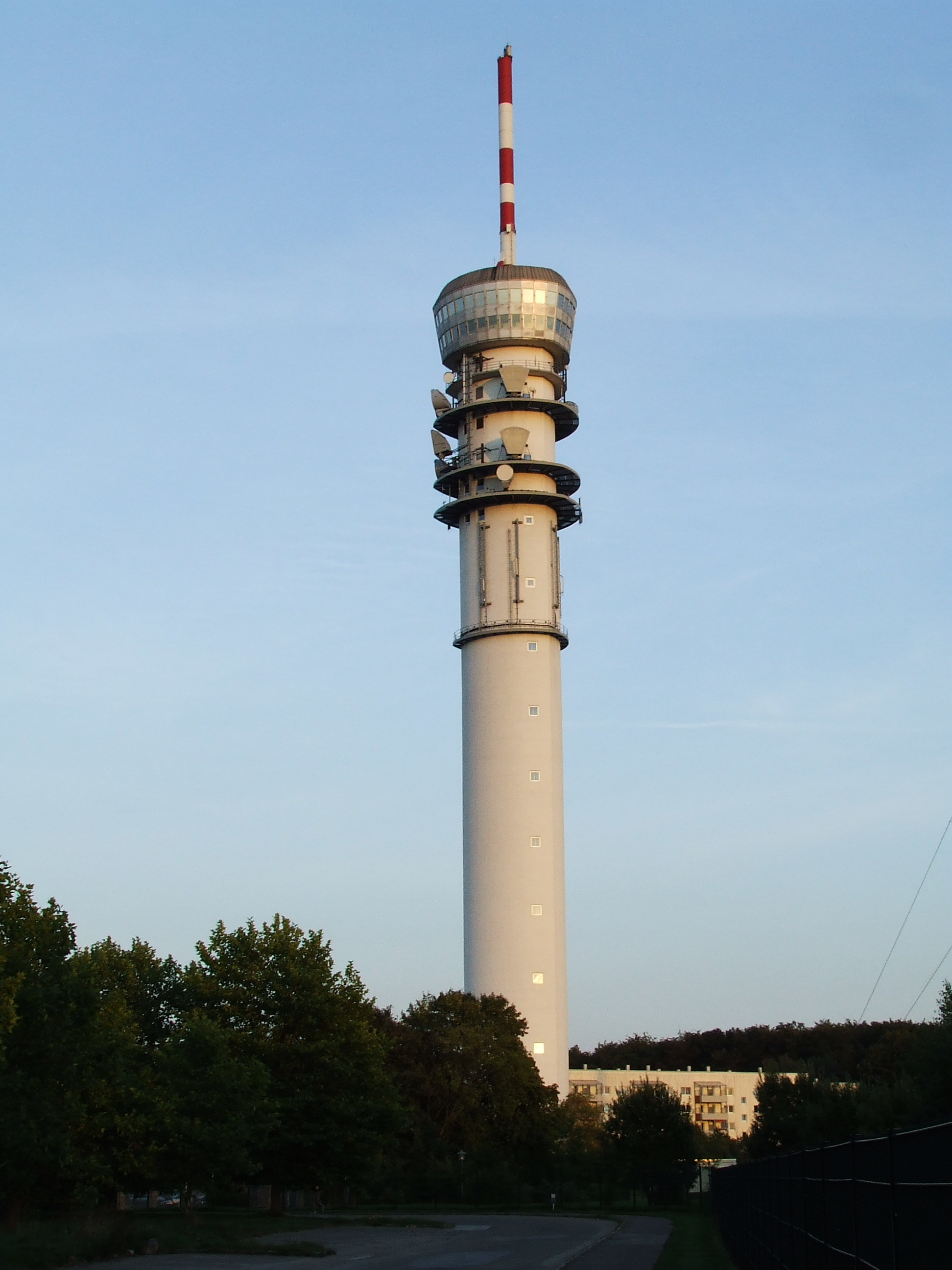 Schwerin television tower